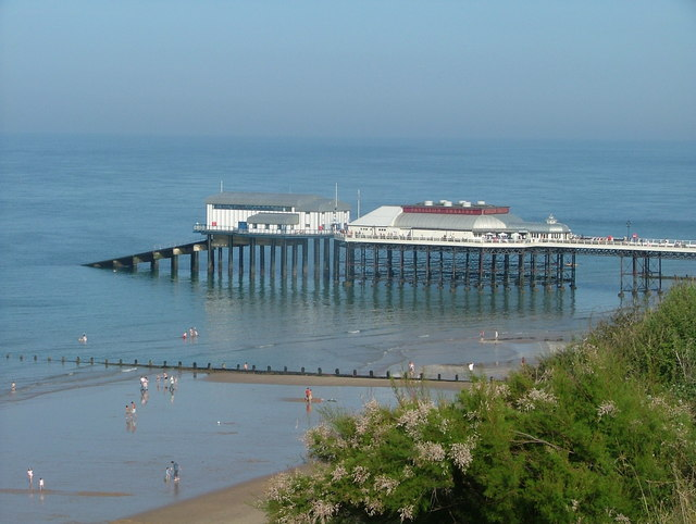 Cromer Pier with Lifeboat Station at end.